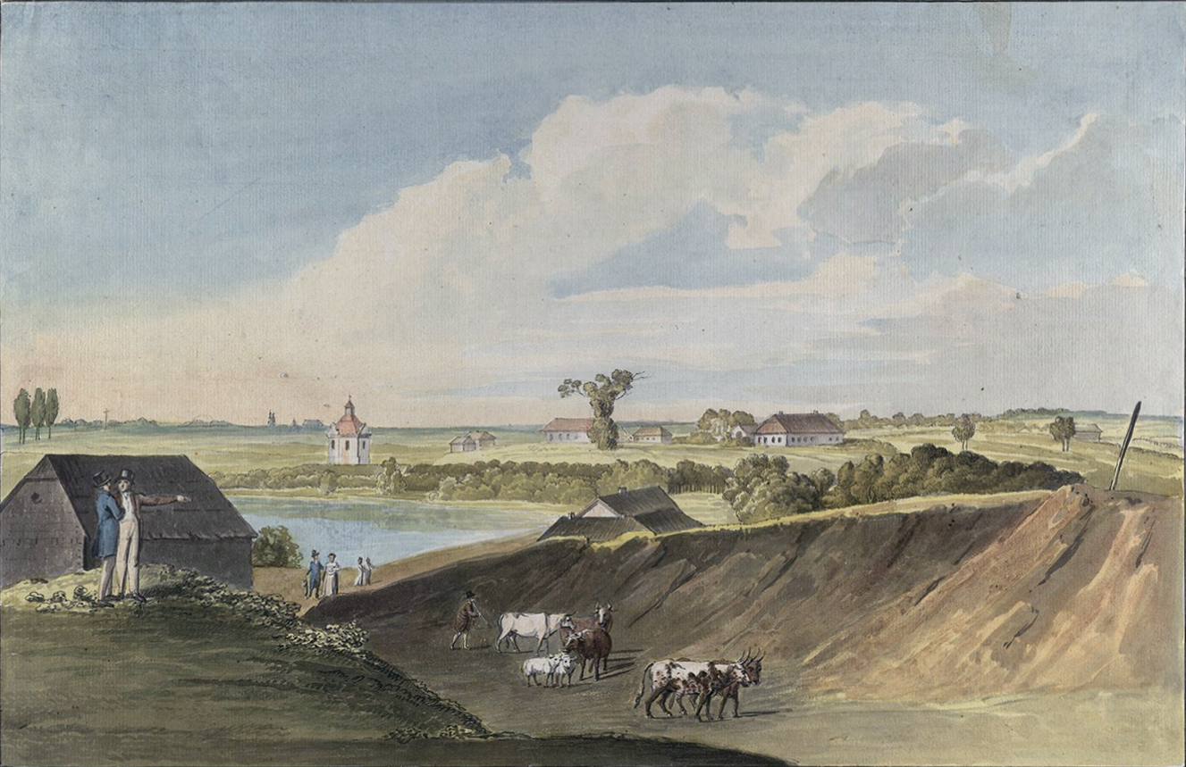 View of Łošyca